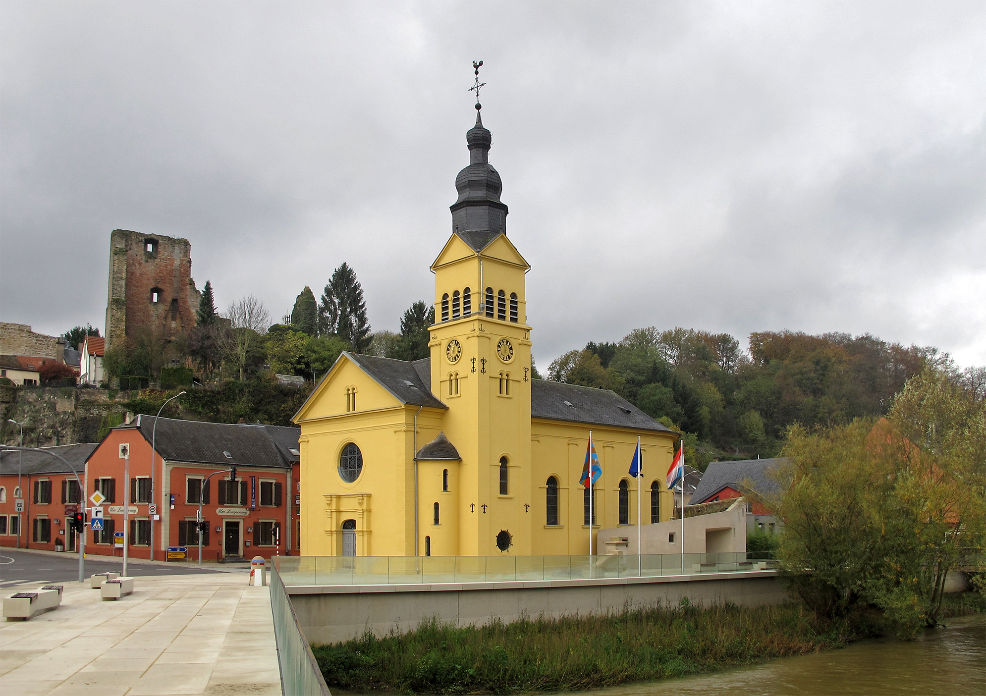 Church of Hesperange, Luxembourg